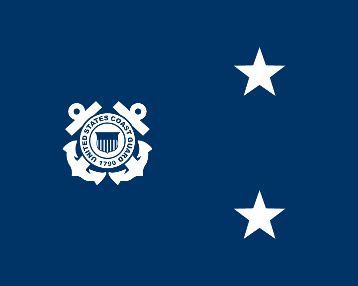 U.S. Coast Guard Flag of Rear Admiral Websafe Colors